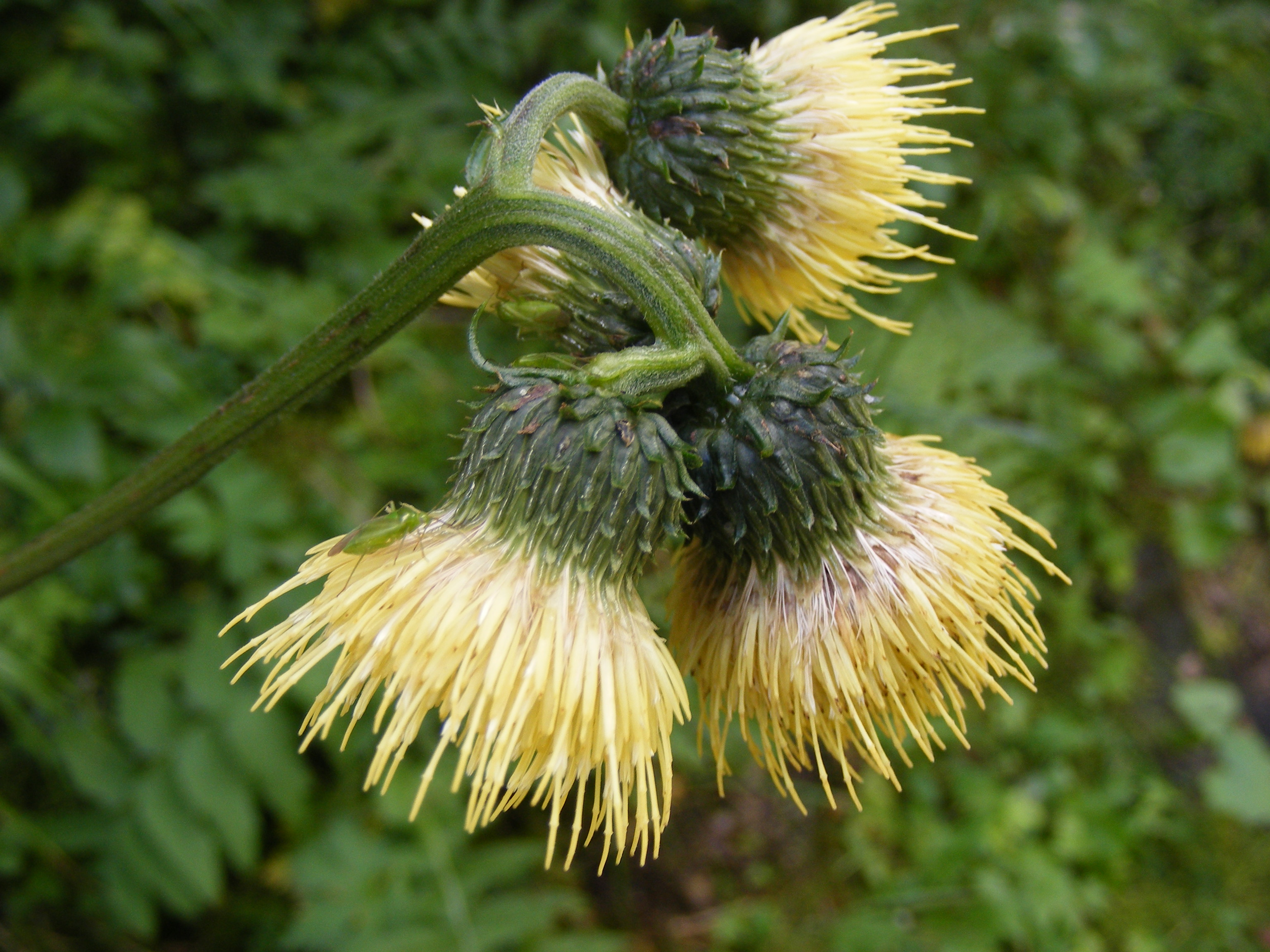 This photo shows Cirsium erisithales